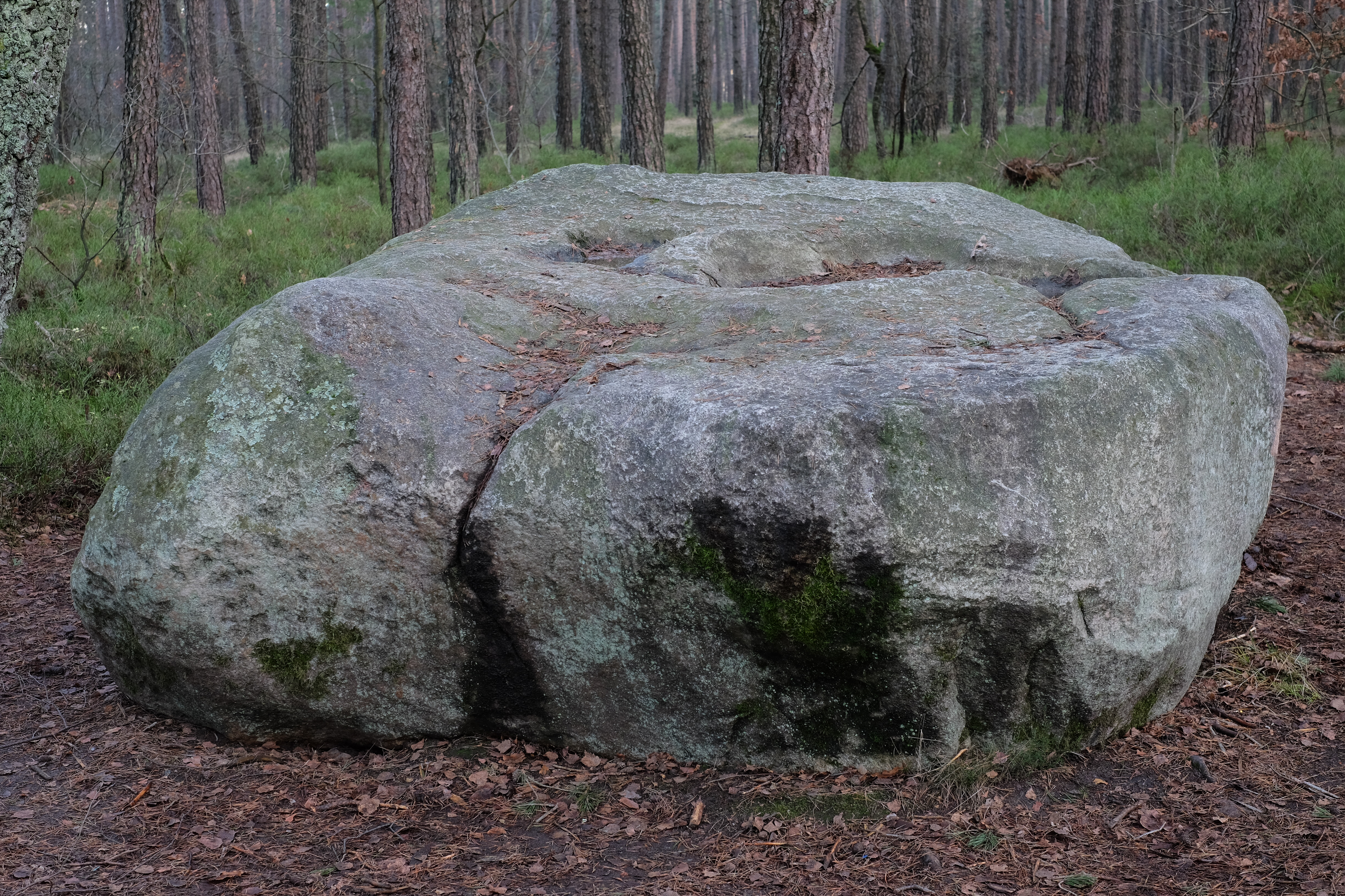 Glacial erratic Teufelsstein (Geotope ID 371R044) near Hahnbach, district Amberg-Sulzbach, Upper Palatinate, Bavaria, Germany